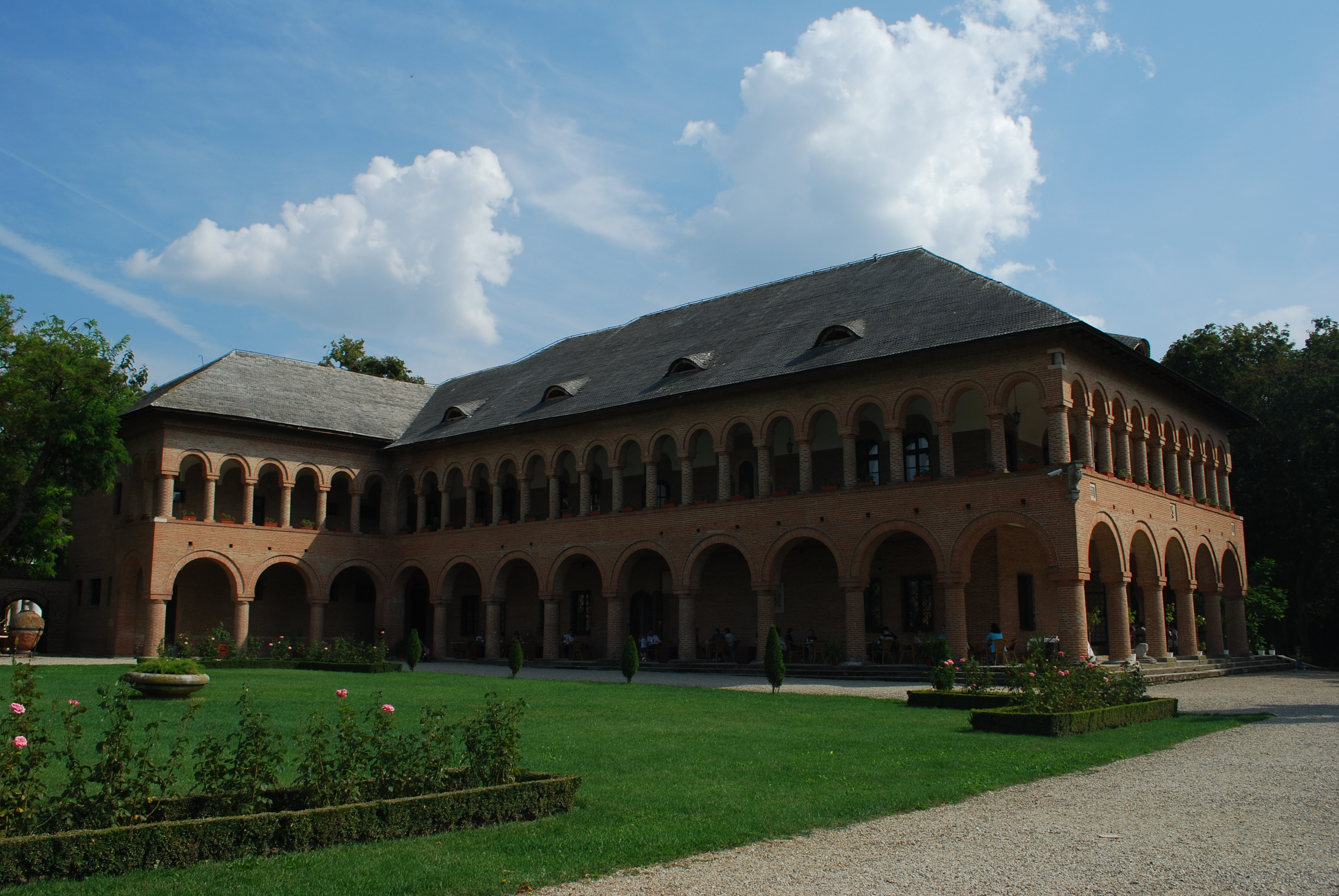 Mogoşoaia Palace in Mogoşoaia, Ilfov County, Romania - The guest house